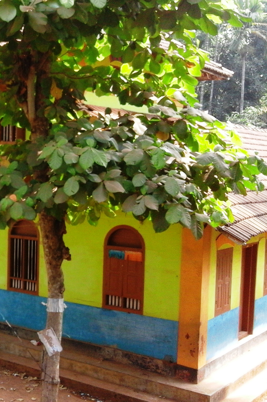 Omanoor Mosque, Near Kondotty, Malappuram district, Kerala, India.